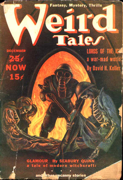 Cover of the pulp magazine Weird Tales (December 1939, vol. 34, no. 6) featuring Lords of the Ice by David H. Keller. Cover art by Hannes Bok.